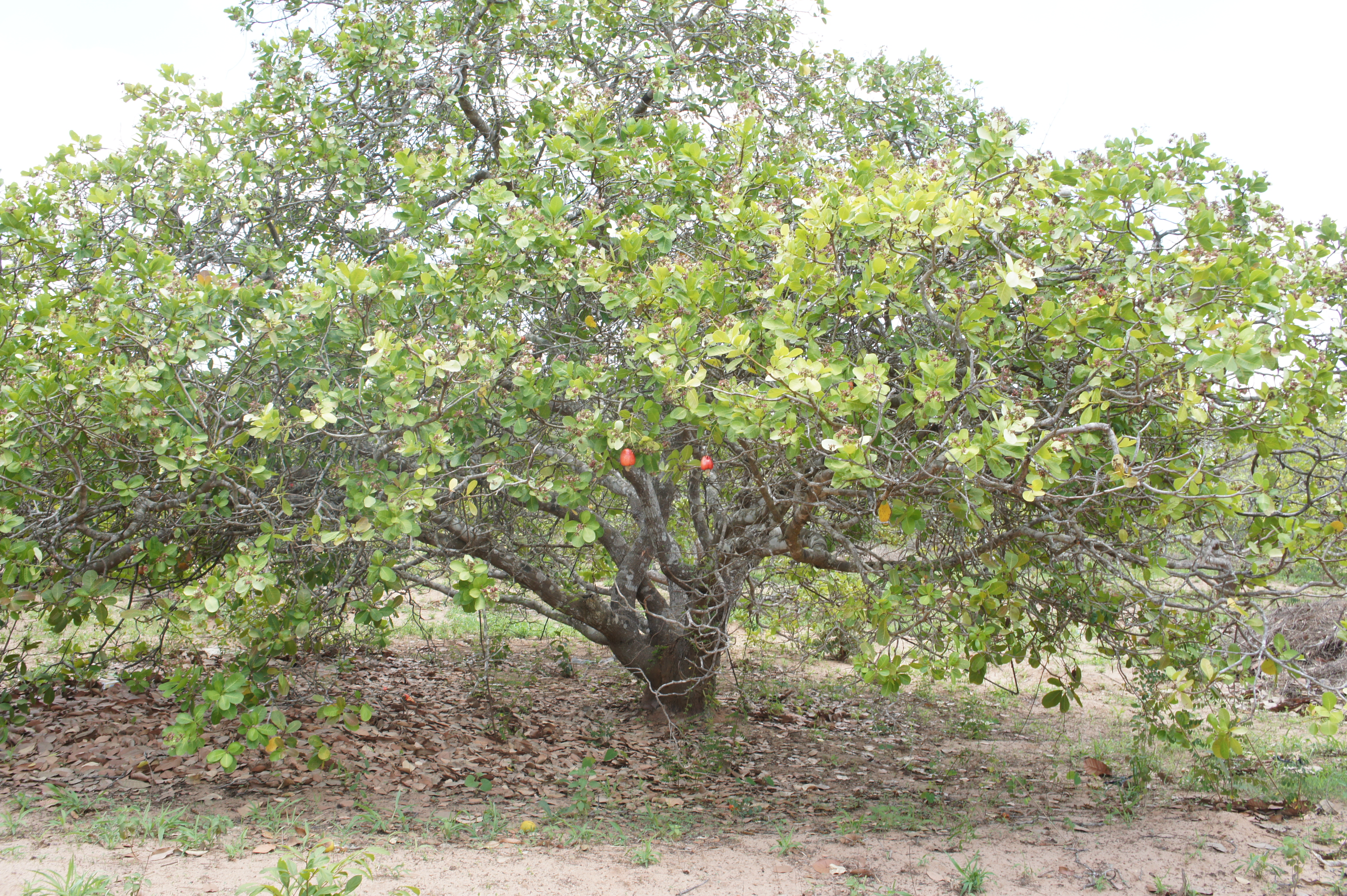 Cashew tree in Meconta District, Nampula Province, Mozambique